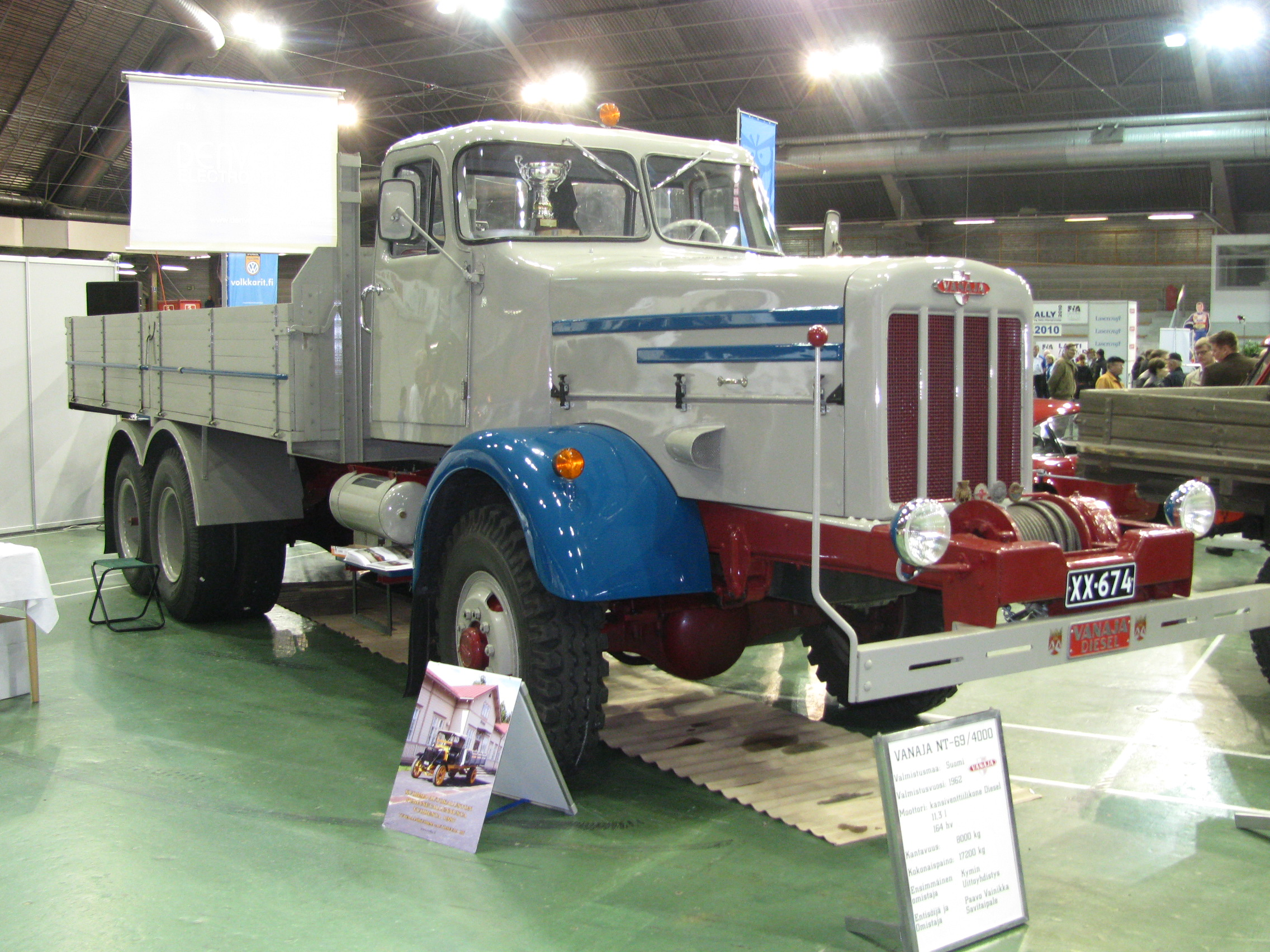 Vanaja NT-69/4000 from 1962; Classic Motor Show in Lahti, Finland.